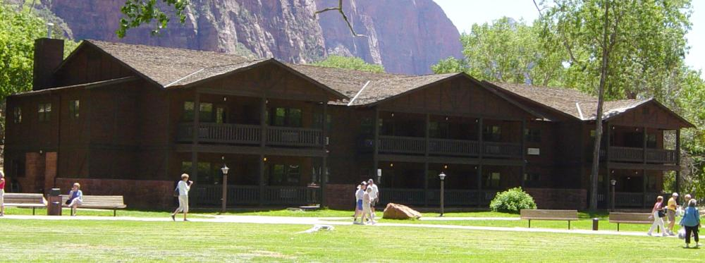 Western Cabins of zion